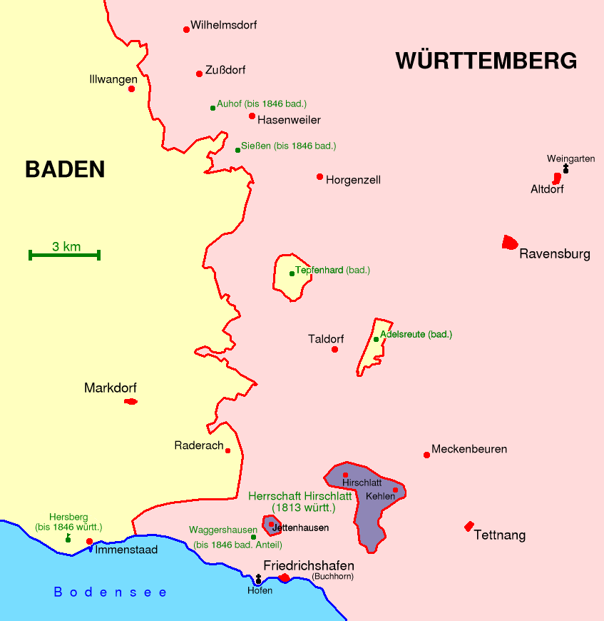 Map of the territories north of Lake Constance 1810-1846